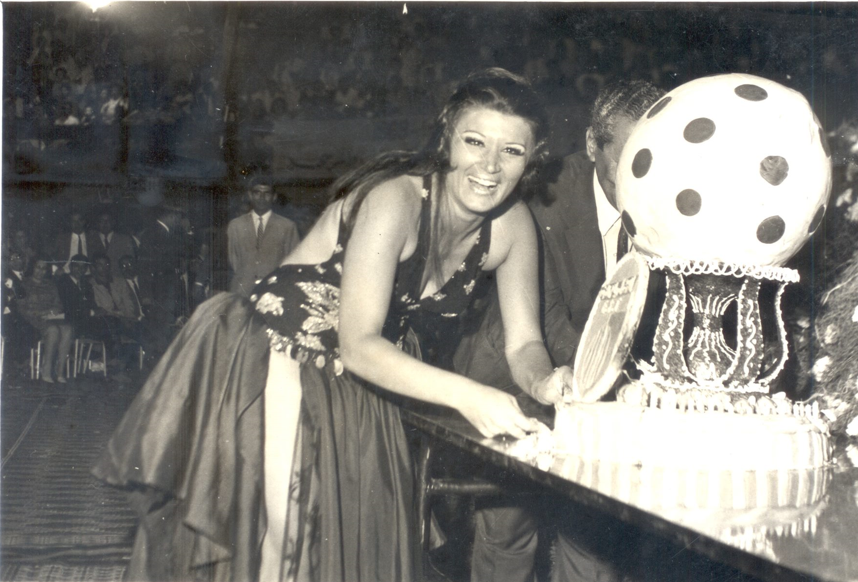 Egyptian belly dancer and actress Nagoua Foued during Esperance Sportive de Tunis 60th anniversary celebration in 1979.